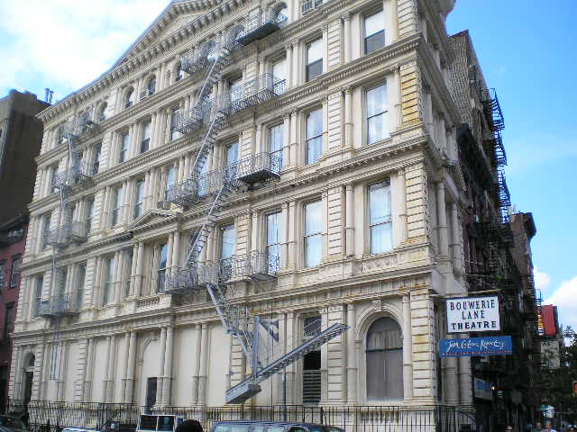 Looking north across Bond Street at Bouwerie Lane Theatre, The Bowery. New York City.